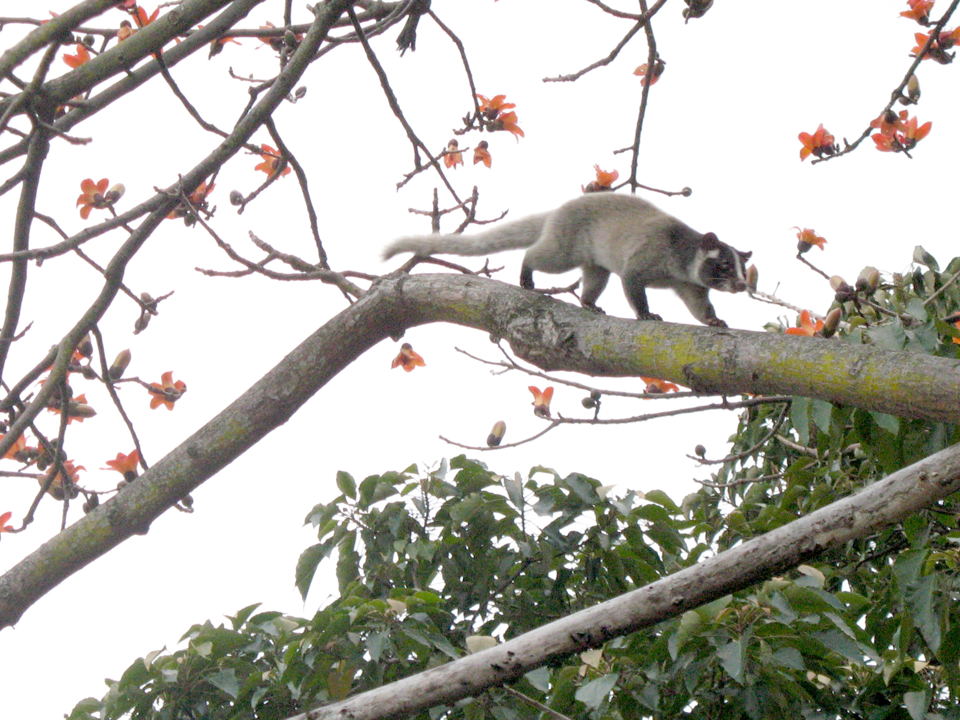 Masked palm civet (a.k.a. gem-faced civet). Photographer's original comments: "The cotton tree flowers had attracted a whole lot of guests to feed upon its banquet... However I was not prepared to find a palm civet - outside my window - in the middle of the city!"